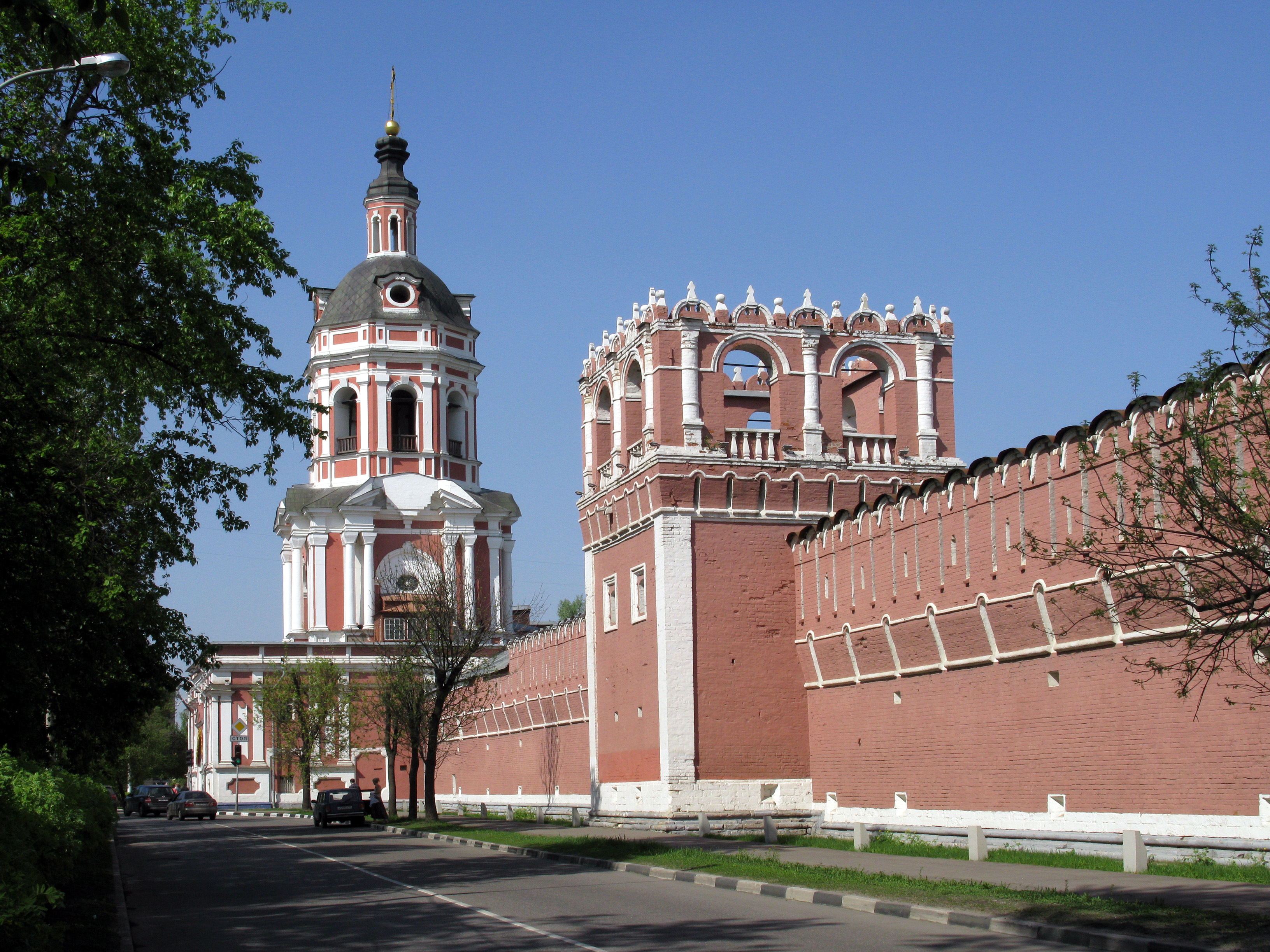 Wall ans watchtower of Donskoy Monastery, Moscow. Gate Church of Saints Zachary and Elisabeth with bell tower.